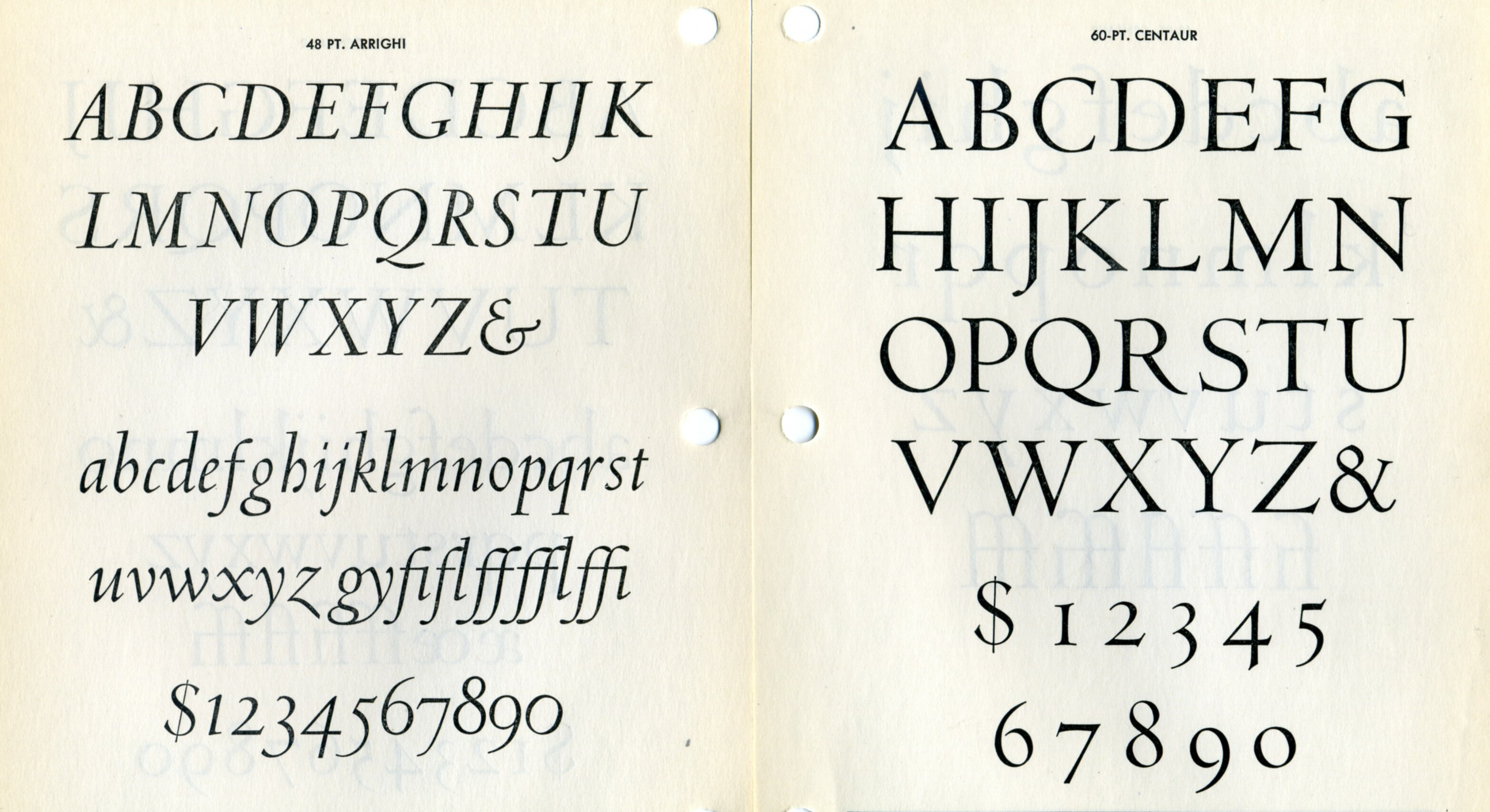 Centaur and its companion italic (then called Arrighi) in metal type.